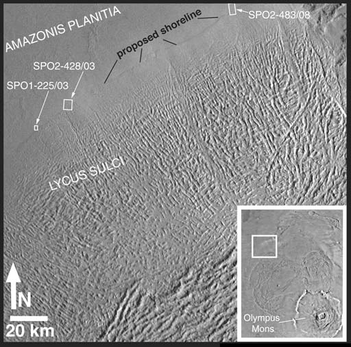 The Amazonis/Lycus Sulci Contact. This Viking image taken in the late 1970s shows the location of a proposed shoreline. The three small white boxes show the locations of the MOC images targeted on the feature in 1998. The inset at the lower right is a Viking image showing the location of the proposed shoreline with respect to Olympus Mons. One of the close up views can be found in shoreln2.htm. Target Name: Mars Spacecraft: Viking Produced by: NASA/JPL/Malin Space Science Systems Copyright: NASA Copyright Free Policy Date Released: 1 October 1999